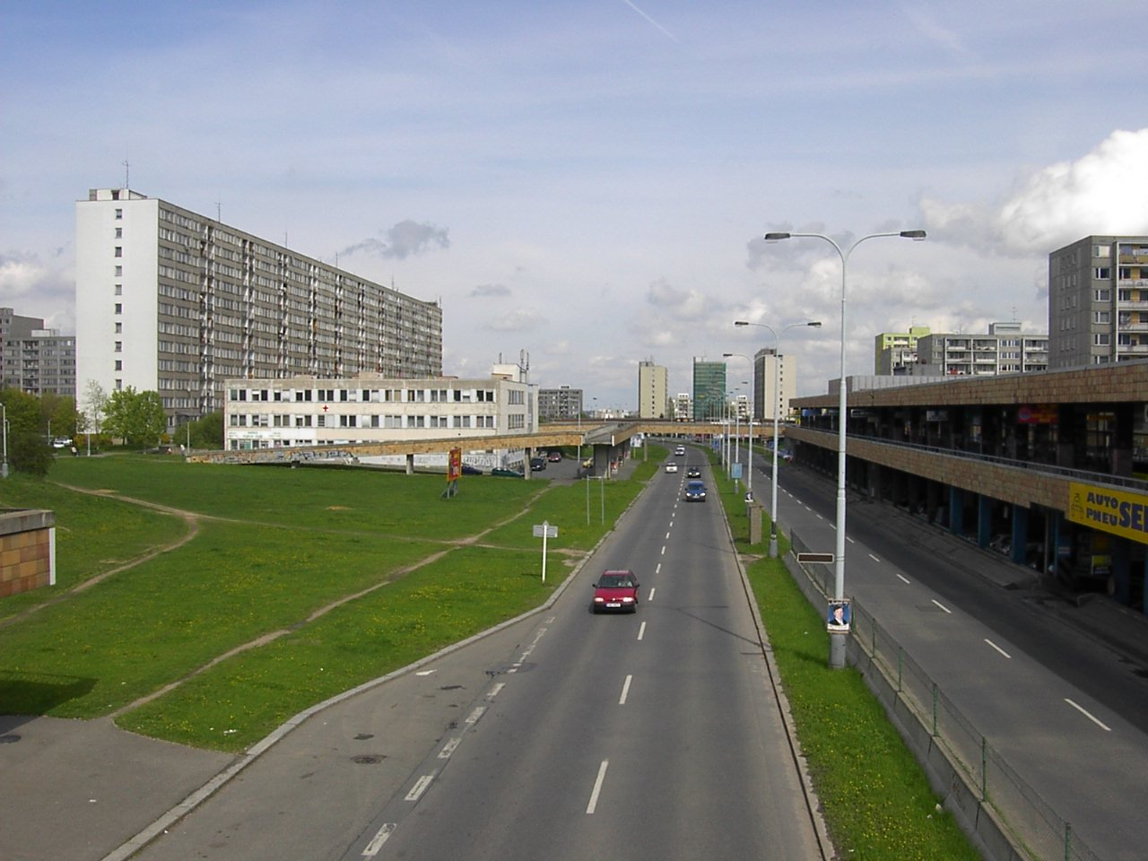 Opatovská Street at Chodov in Prague, Czech Republic.